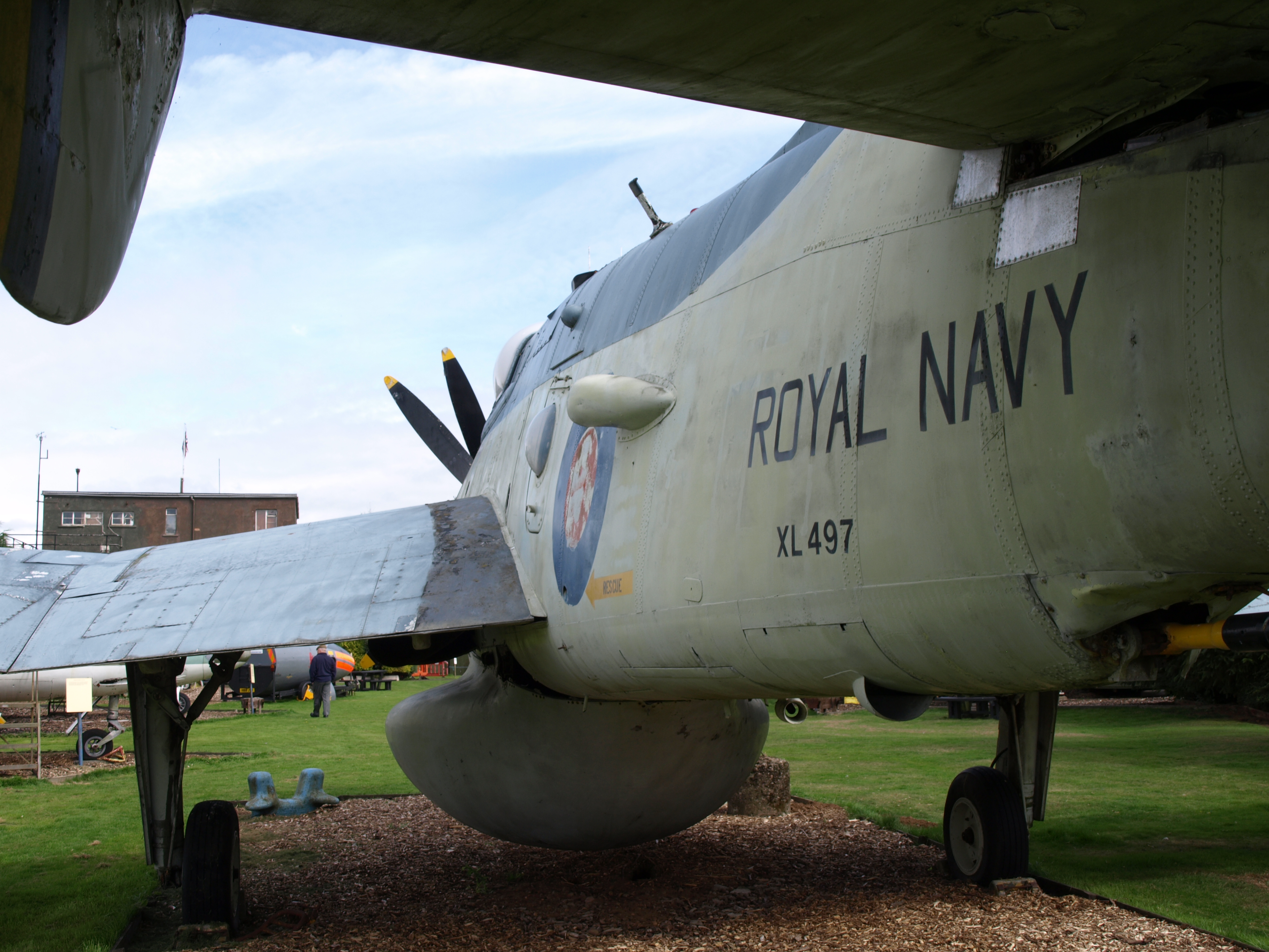 A picture of a Fairey Gannet, number XL497, on display at the Dumfries and Galloway Aviation Museum, Dumfries, Scotland in 2013.